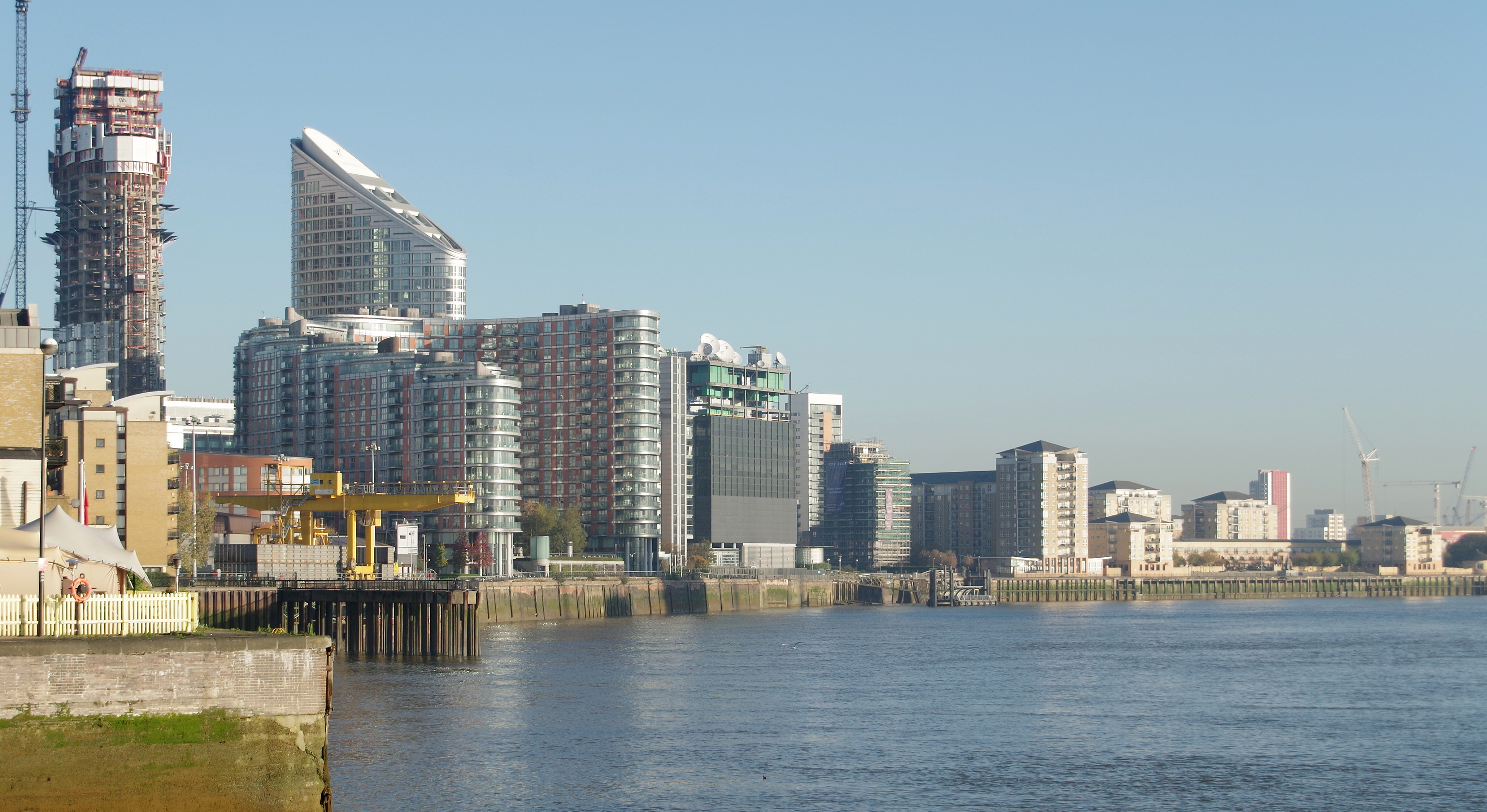 New Providence Wharf and Ontario Tower on a sunny morning.